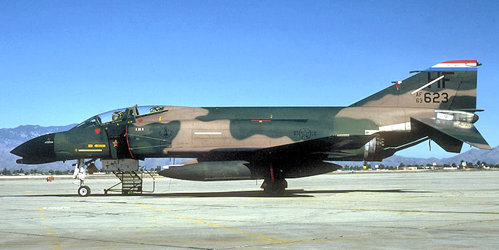 113th Tactical Fighter Squadron - McDonnell F-4C-20-MC Phantom 63-7623 in Vietnam War camouflage livery. Later modified as EF-4C Wild Weasel flak suppression aircraft.